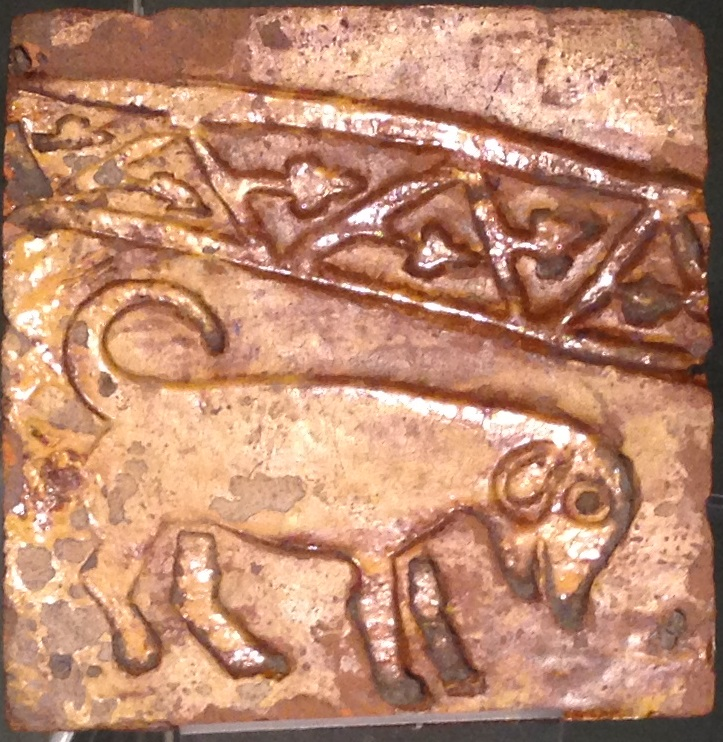 English medieval floor tile, found in Ludlow, part of a set showing a hunting scene. The tile may originate from either Ludlow Castle, or the monastery.